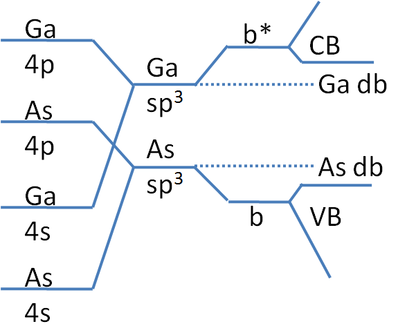 Harrisson Diagram-GaAs